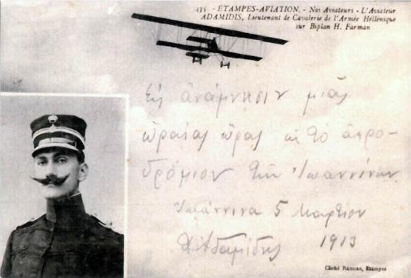 Pictures of aviator Hristos Adamidis, flying with a Farman MF.7 biplane (1912-1913)